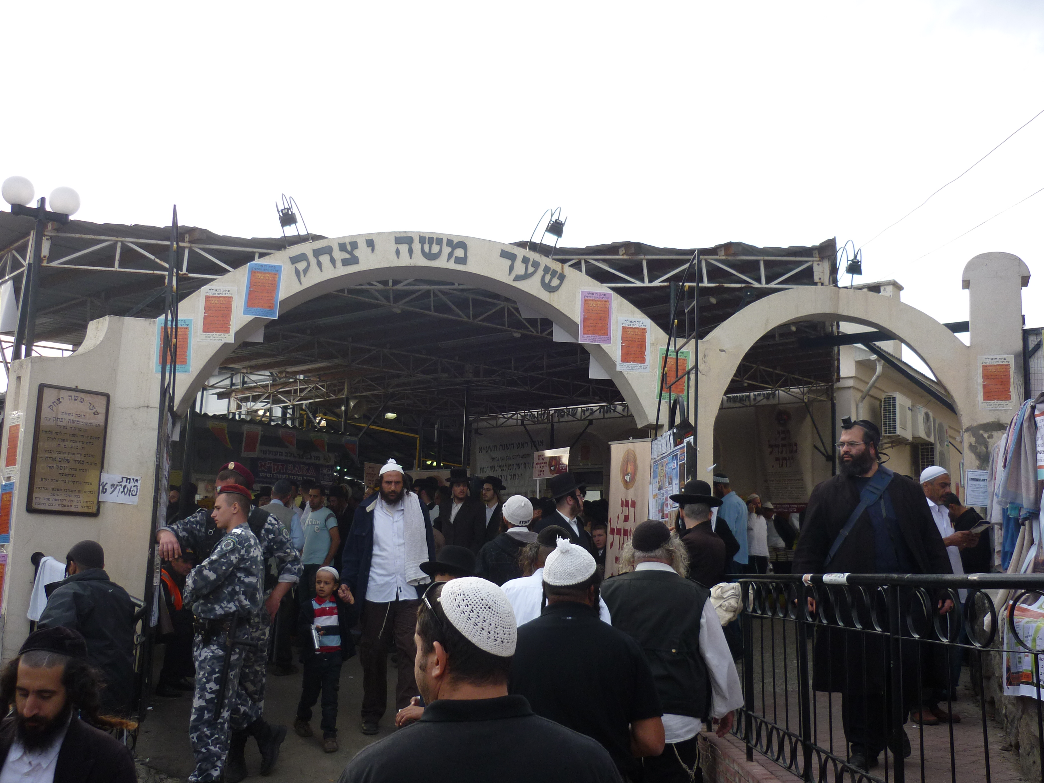 Hasidic peoples in Uman